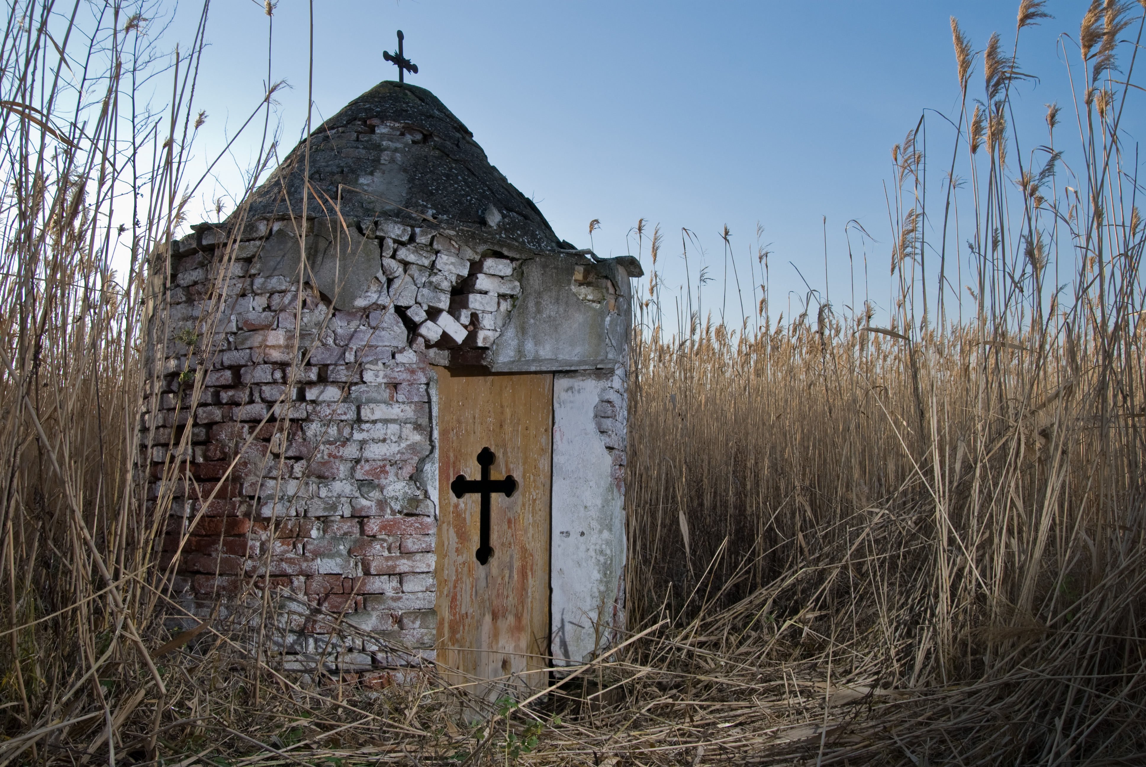 Vodica of Honorable cross i Uzdin, Kovačica